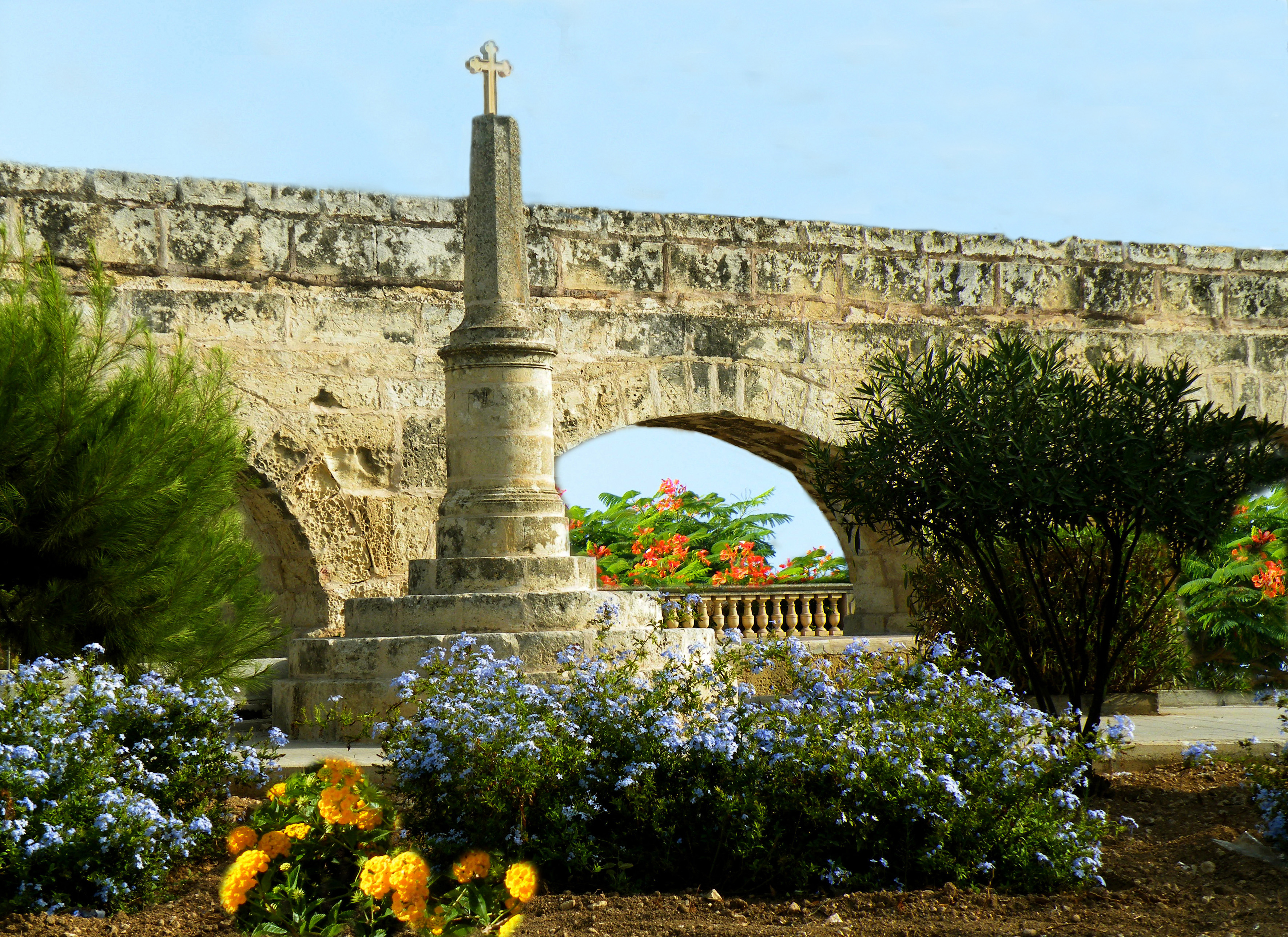 Arches of the Wignacourt Aqueduct and a stone cross, marking the boundary between the towns of Balzan and Birkirkara, Malta